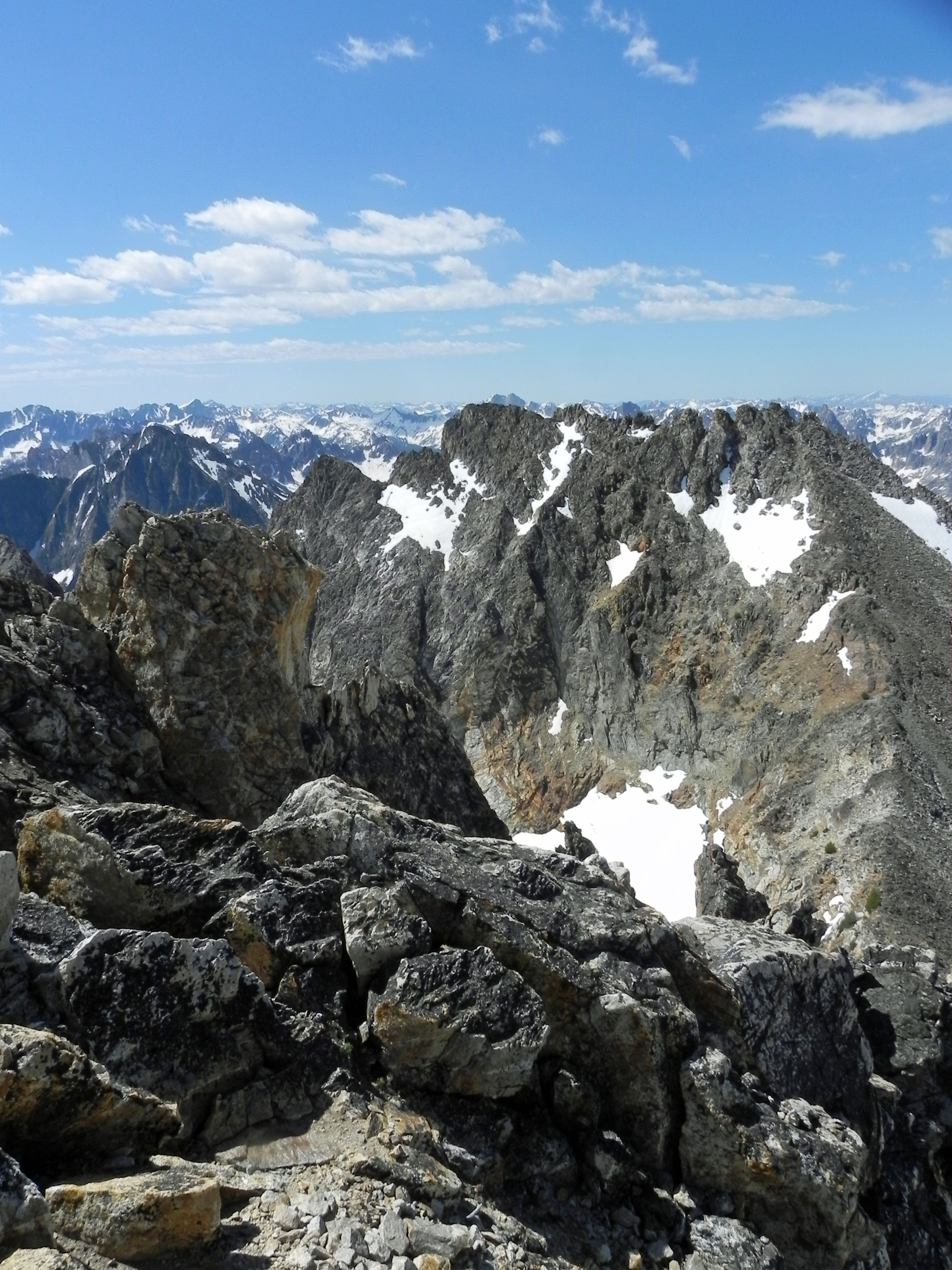 Mickey's Spire in the Sawtooth Range viewed from the summit of Thompson Peak in the Sawtooth Wilderness.